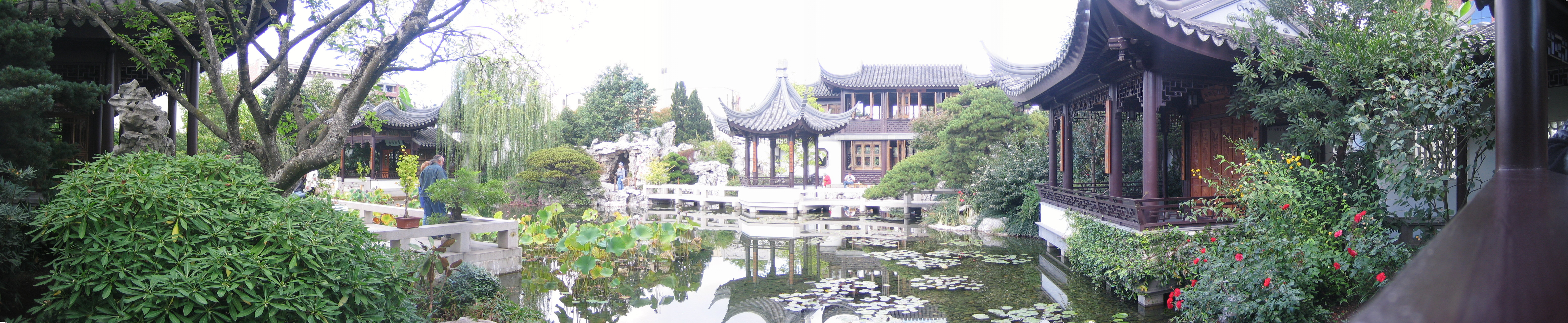 Seattle Chinese Gardens panorama